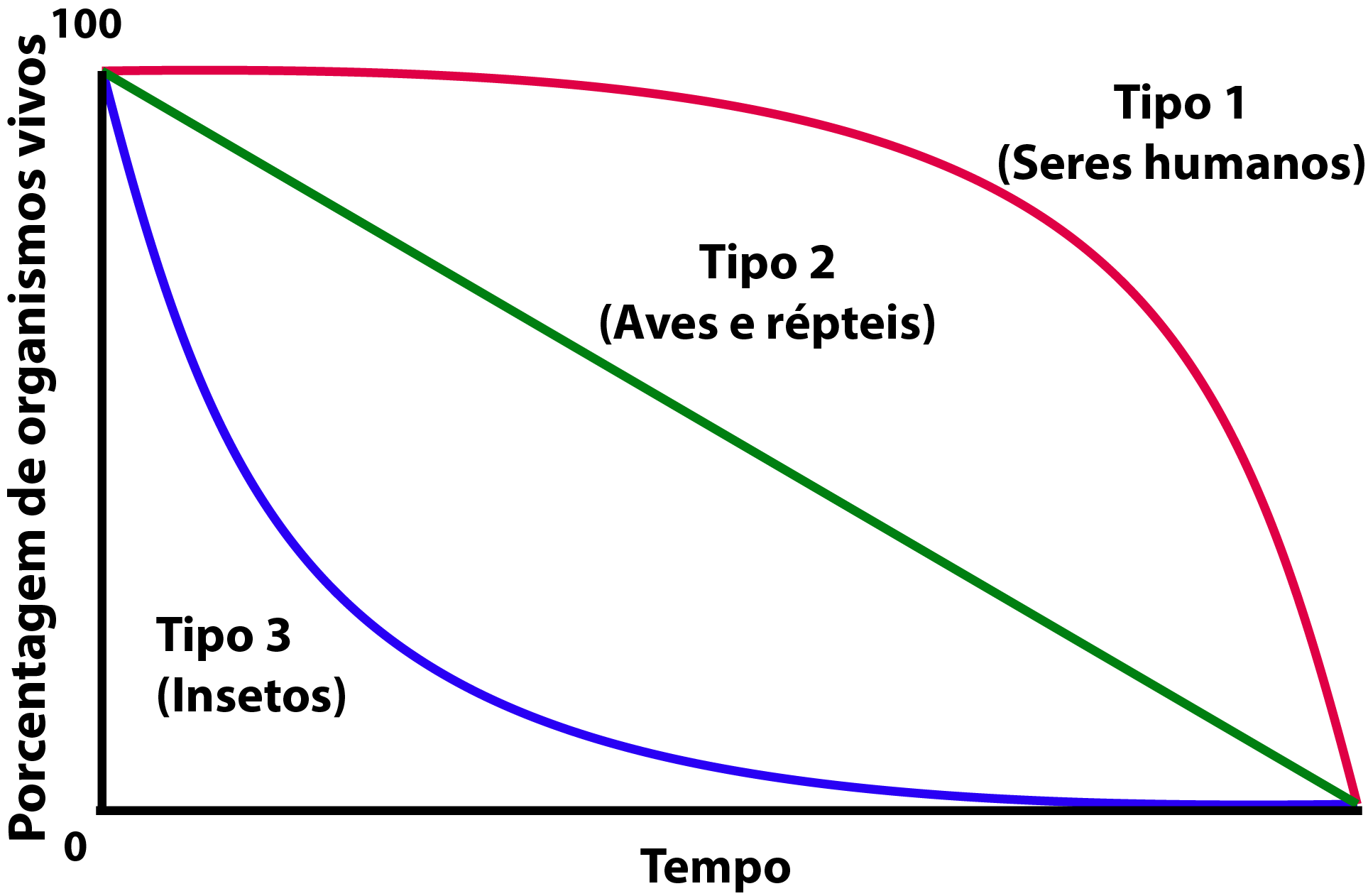 Graph of life history and its 3 types found in nature Português do Brasil: História de vida e os 3 tipos existentes na natureza